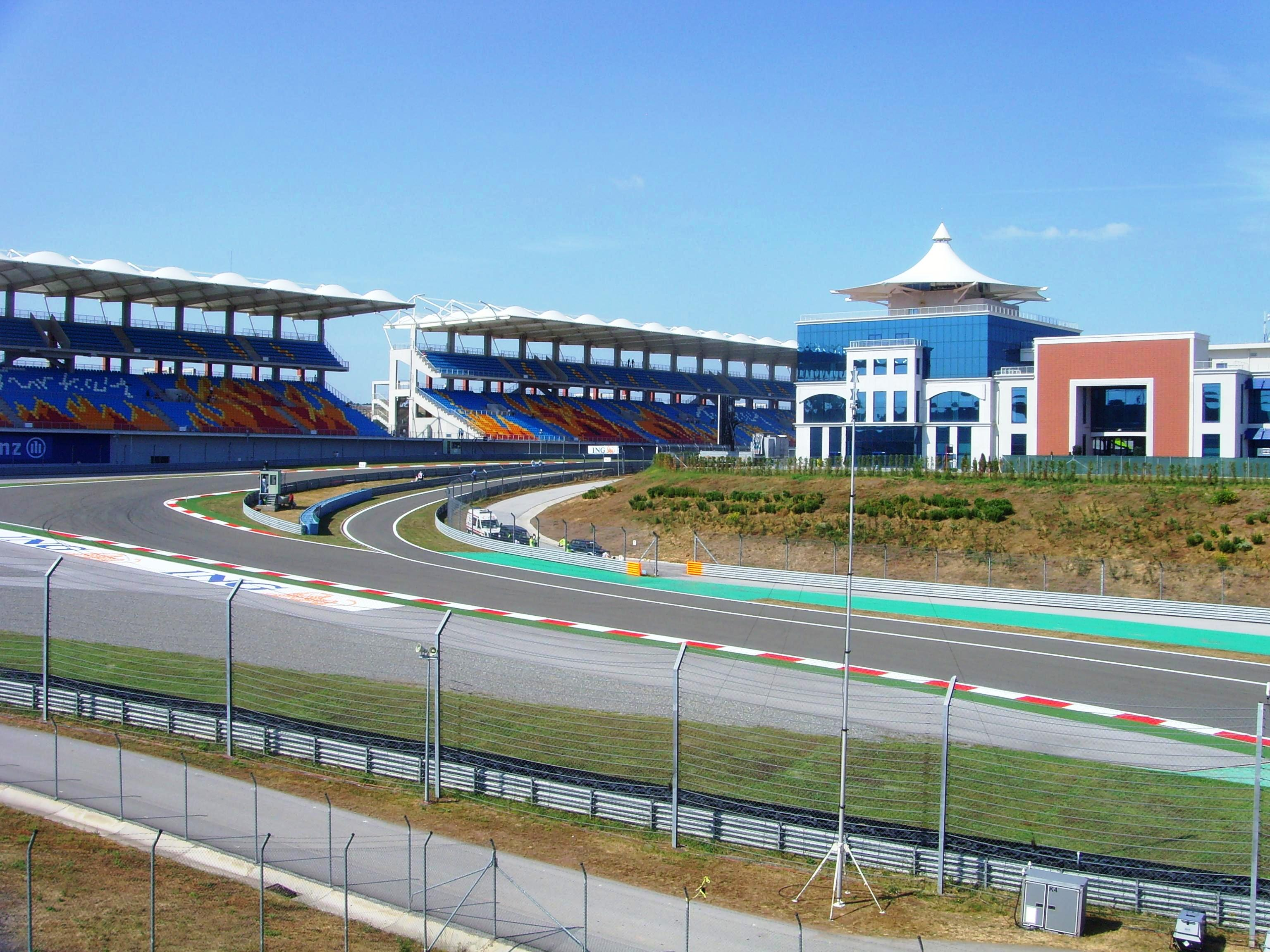 Turn 1 & pit lane exit at Istanbul Park